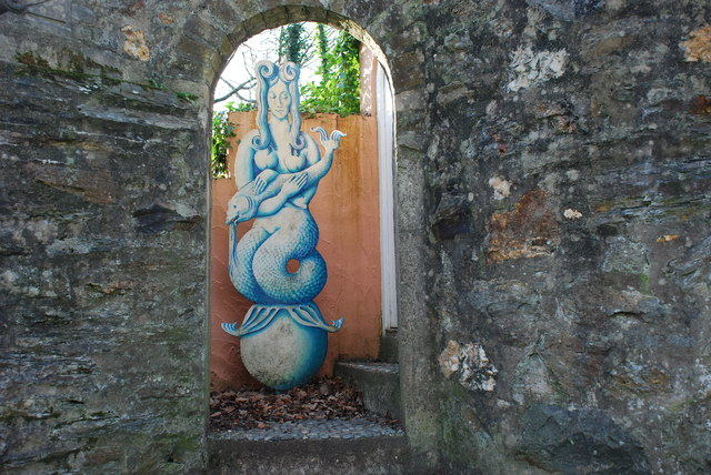 Môr-forwyn Portmeirion Mermaid The twin-tailed mermaid is one of the "trademarks" of Portmeirion. This two-dimensional example greets visitors at the entrance.